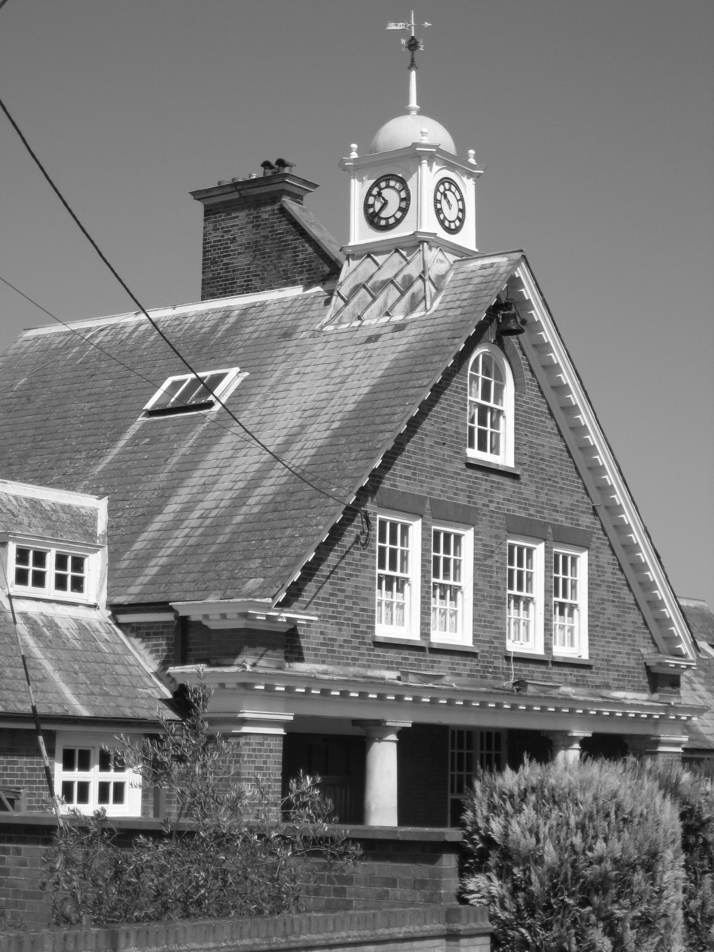 Stables for Michaelstowe Hall, Ramsey, Essex (1903)